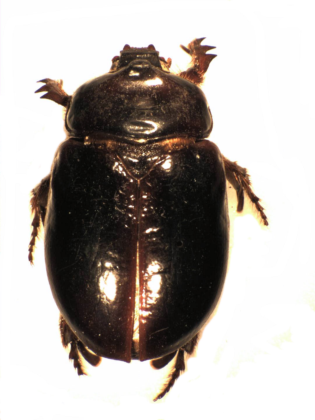 adult male Pericoptus truncatus